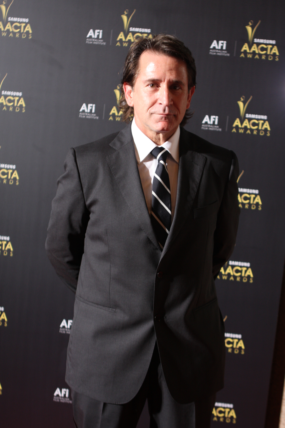 Anthony LaPaglia at the AACTA award 2012